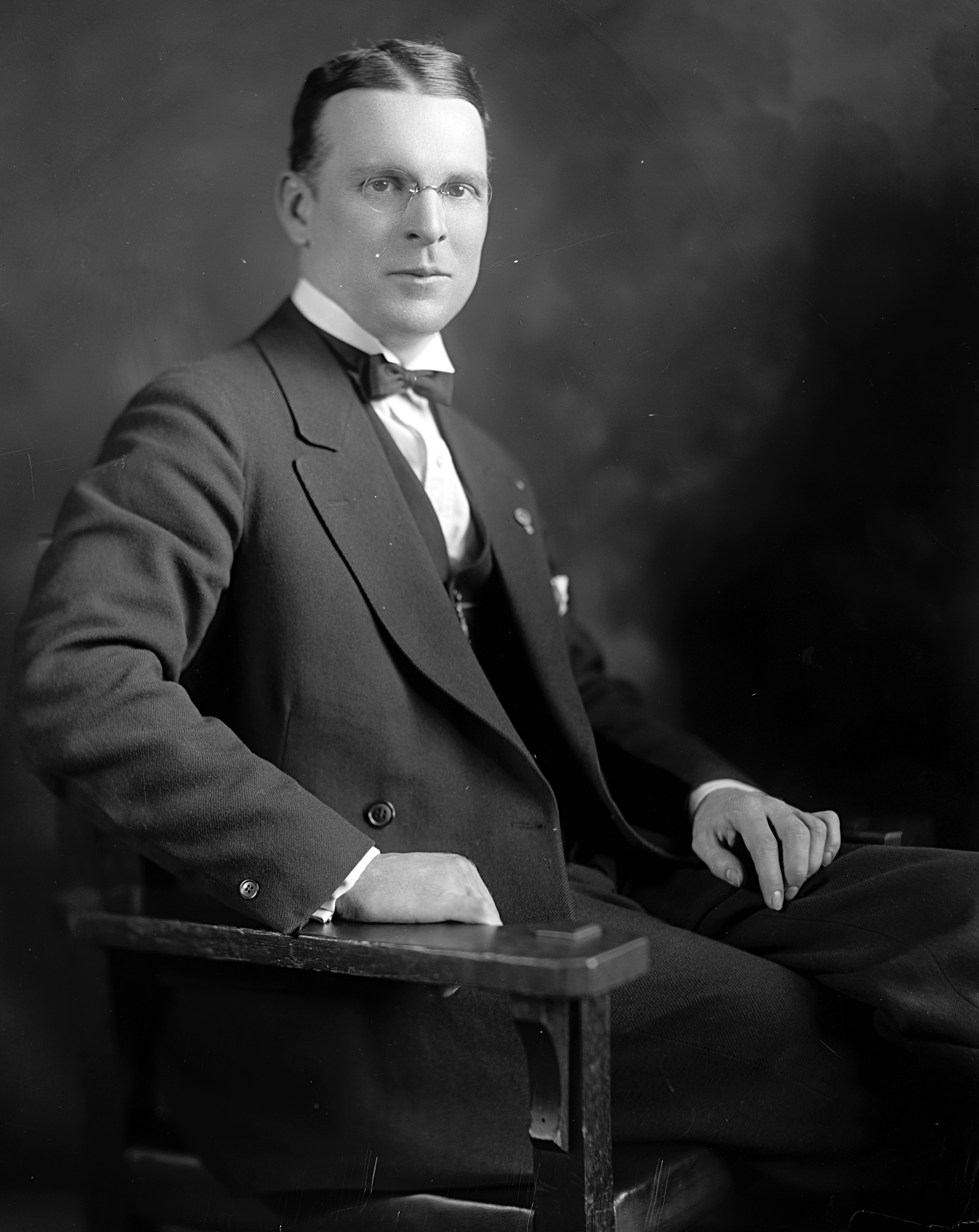 Harold S. Tolley, US Representative from New York